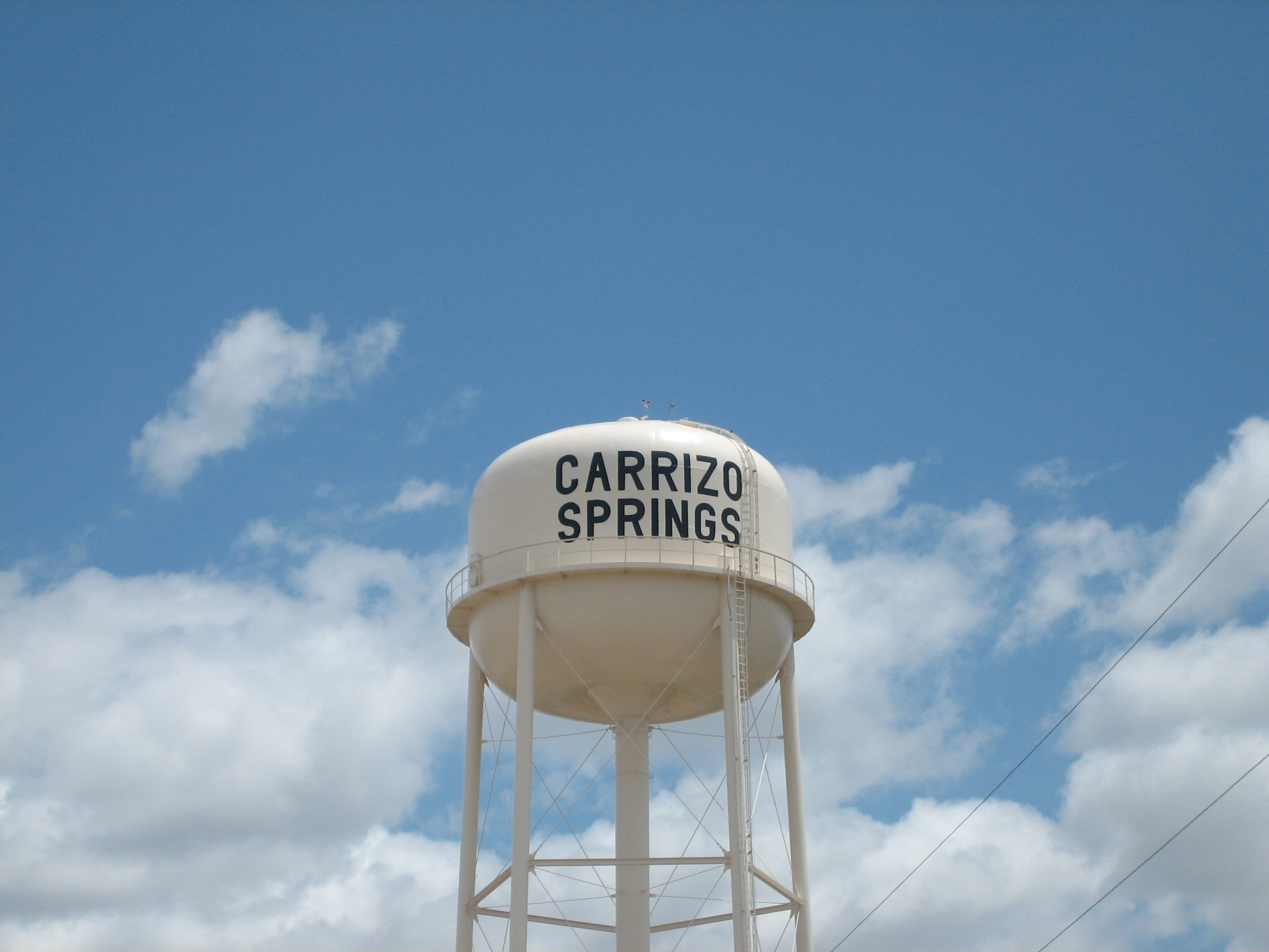 black-on-white-painted water tower at Carrizo Springs, Texas